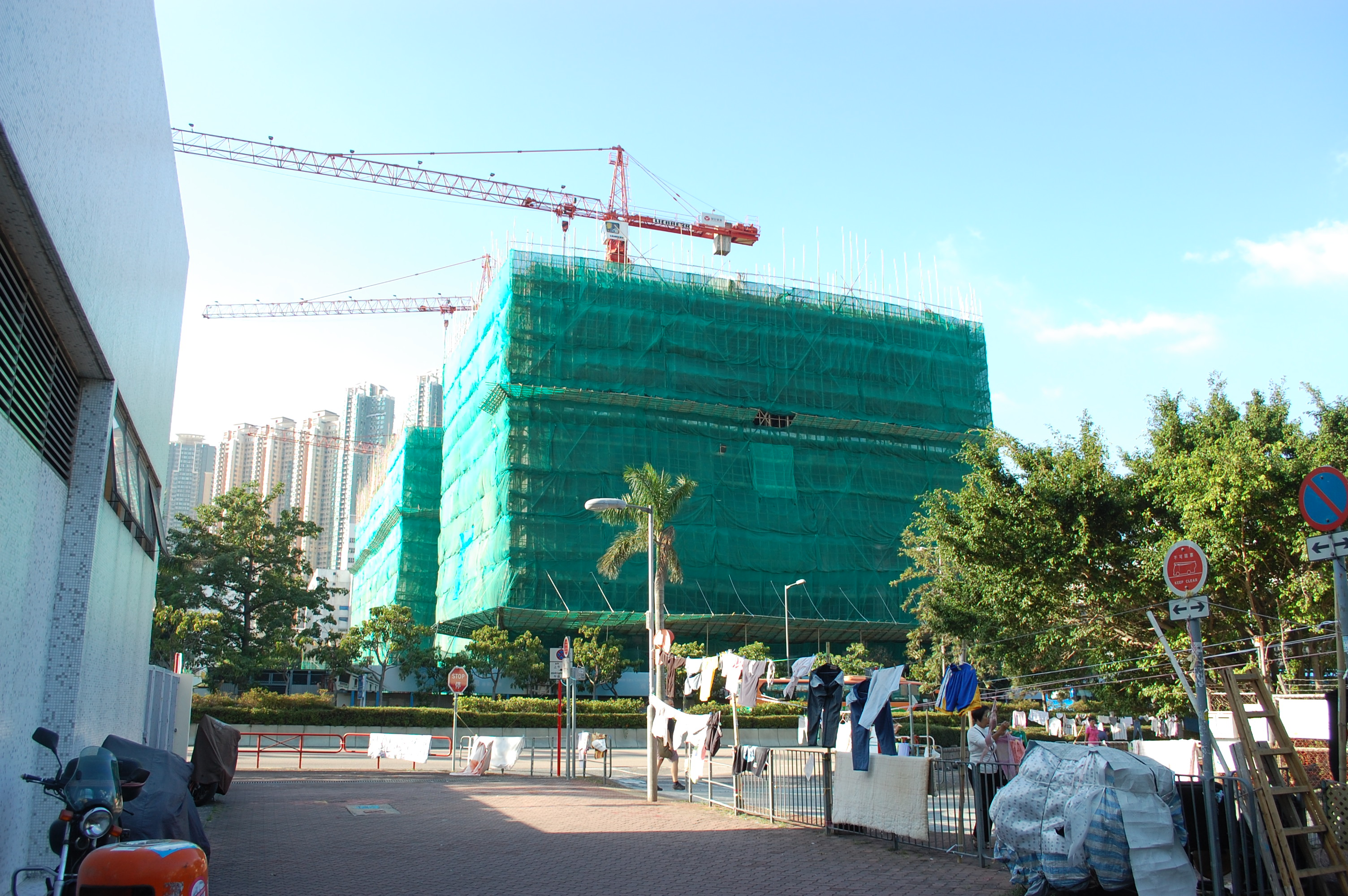 West Kowloon Law Courts Building under construction, with laundry of Fu Cheong Estate residents hanging in the foreground. 中文（香港）: 興建西九龍法院大樓